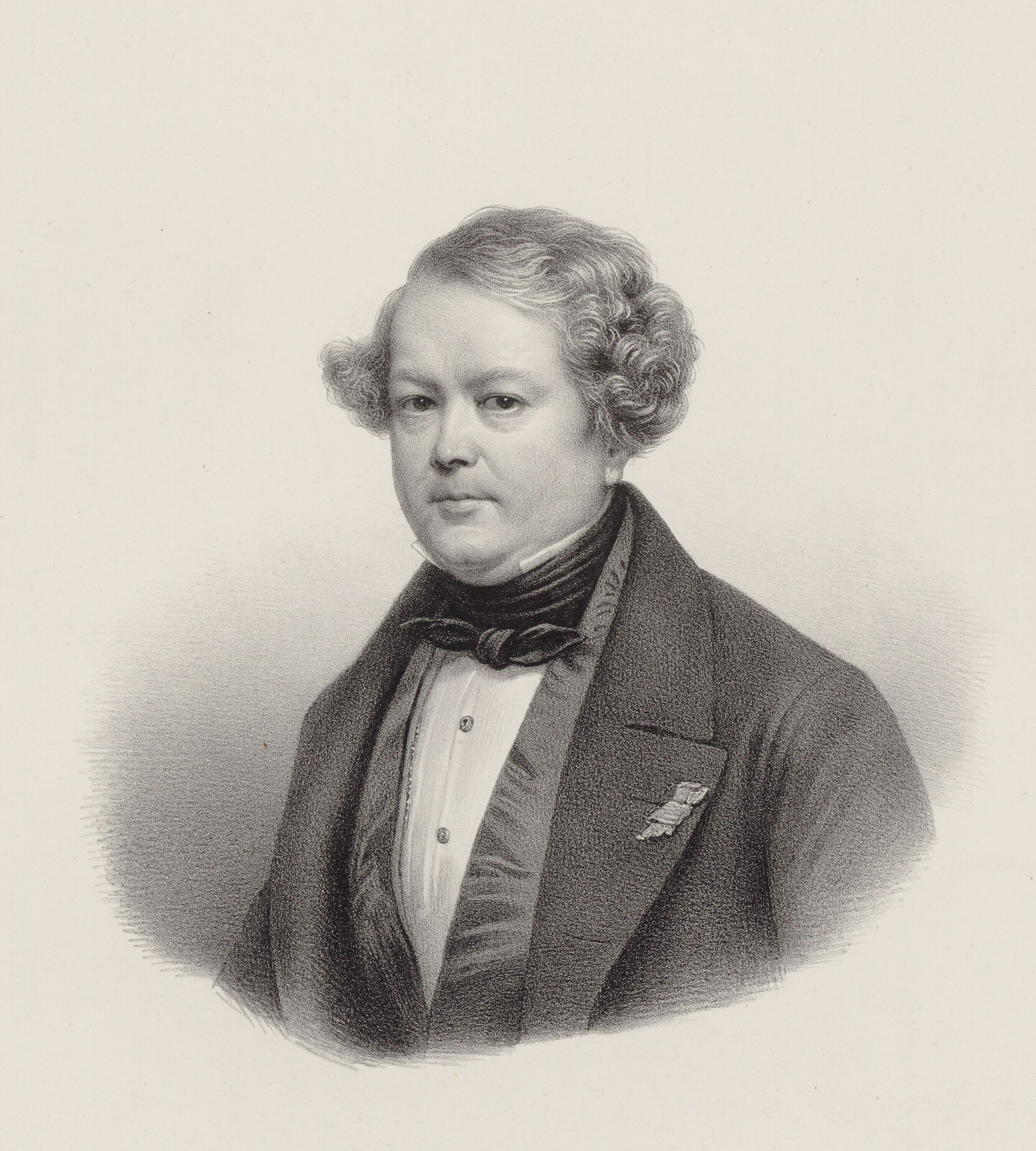 Portrait of Auguste Mathieu Panseron (1796-1859), French composer